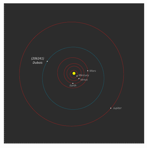 Orbit of asteroid (206241) Dubois